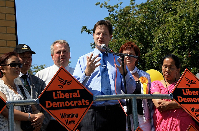 Nick Clegg making a speech at Maidstone